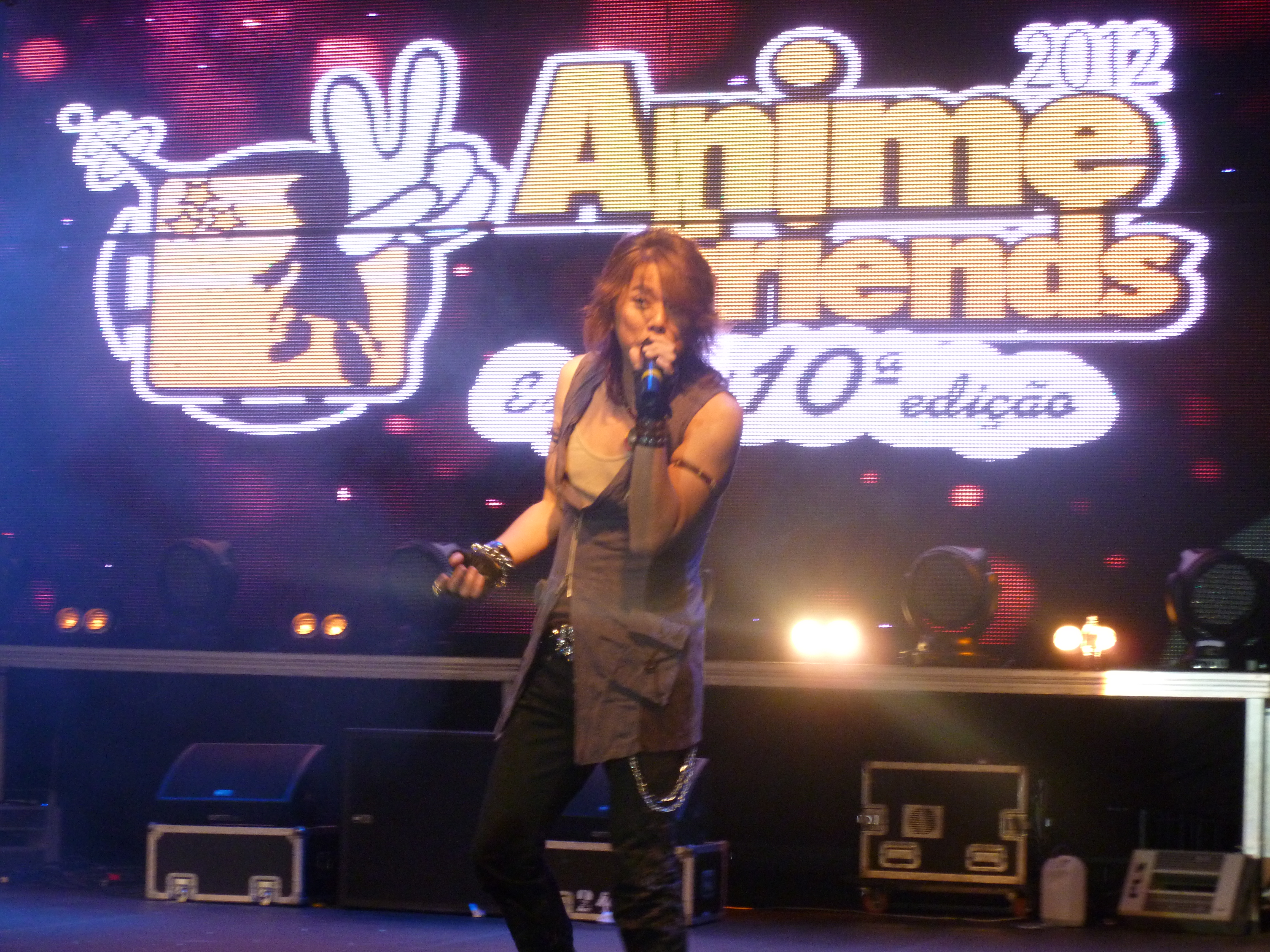 Nobuo Yamada performing at Anime Friends 2012 in São Paulo, Brazil